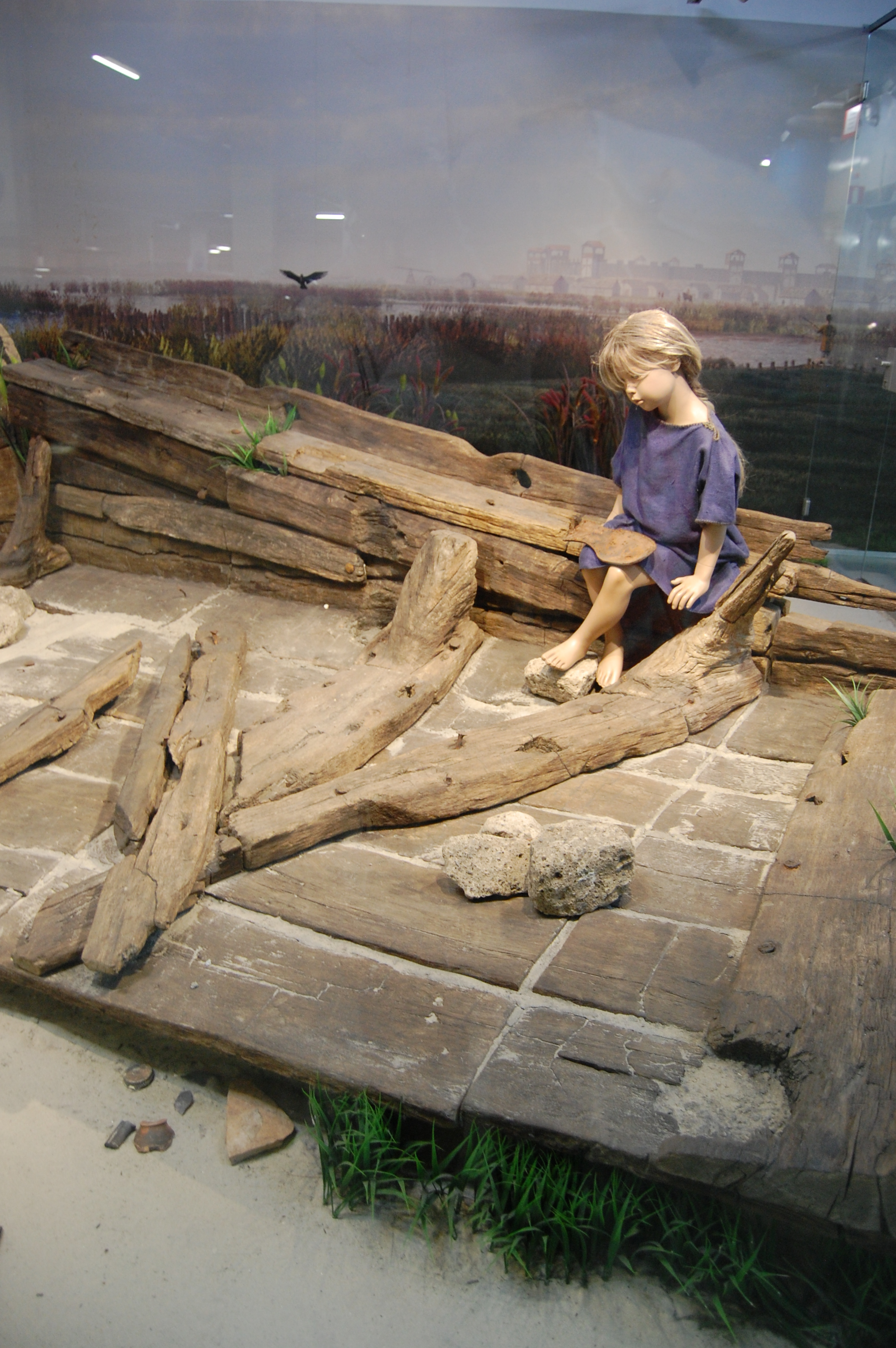 Ancient Roman boat Woerden 7, exhibited in underground parking garage in Woerden